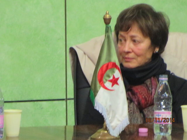 Houria Aichi photo